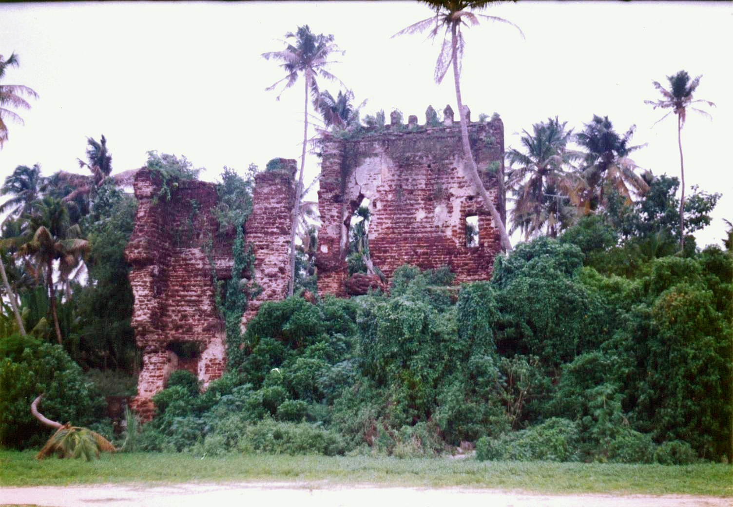 Ruins of St Thomas Fort in Kollam, Kerala, India.